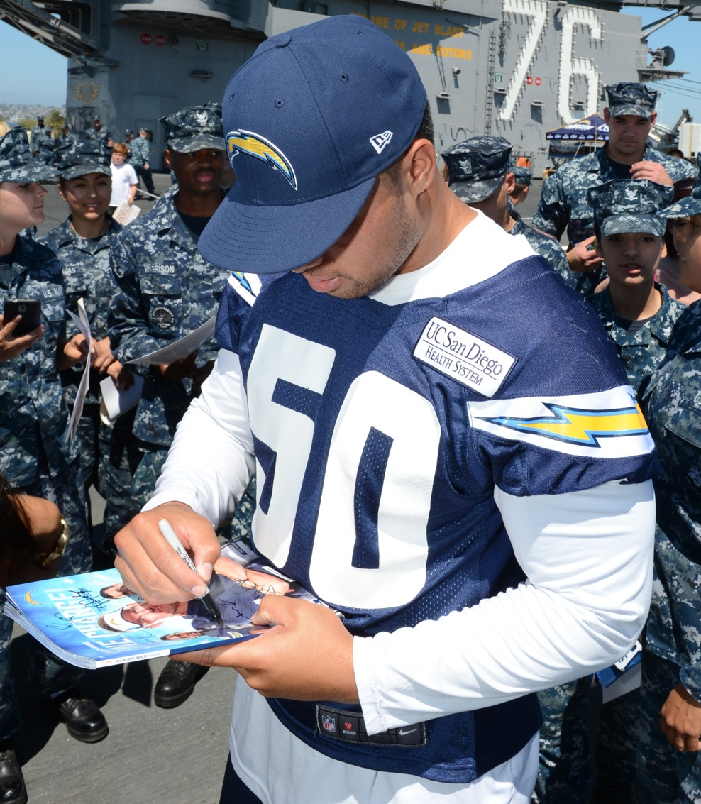 Manti Te'o on the USS Ronald Reagan (CVN-76)